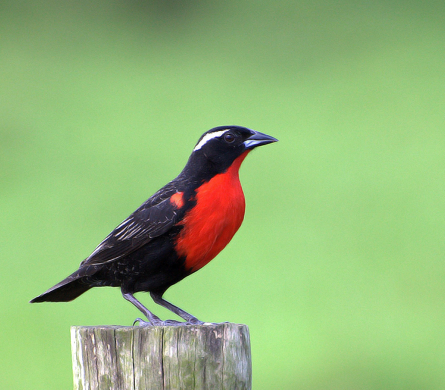 White-browed Blackbird in the Vale do Ribeira, Registro, Sao Paulo, Brazil.